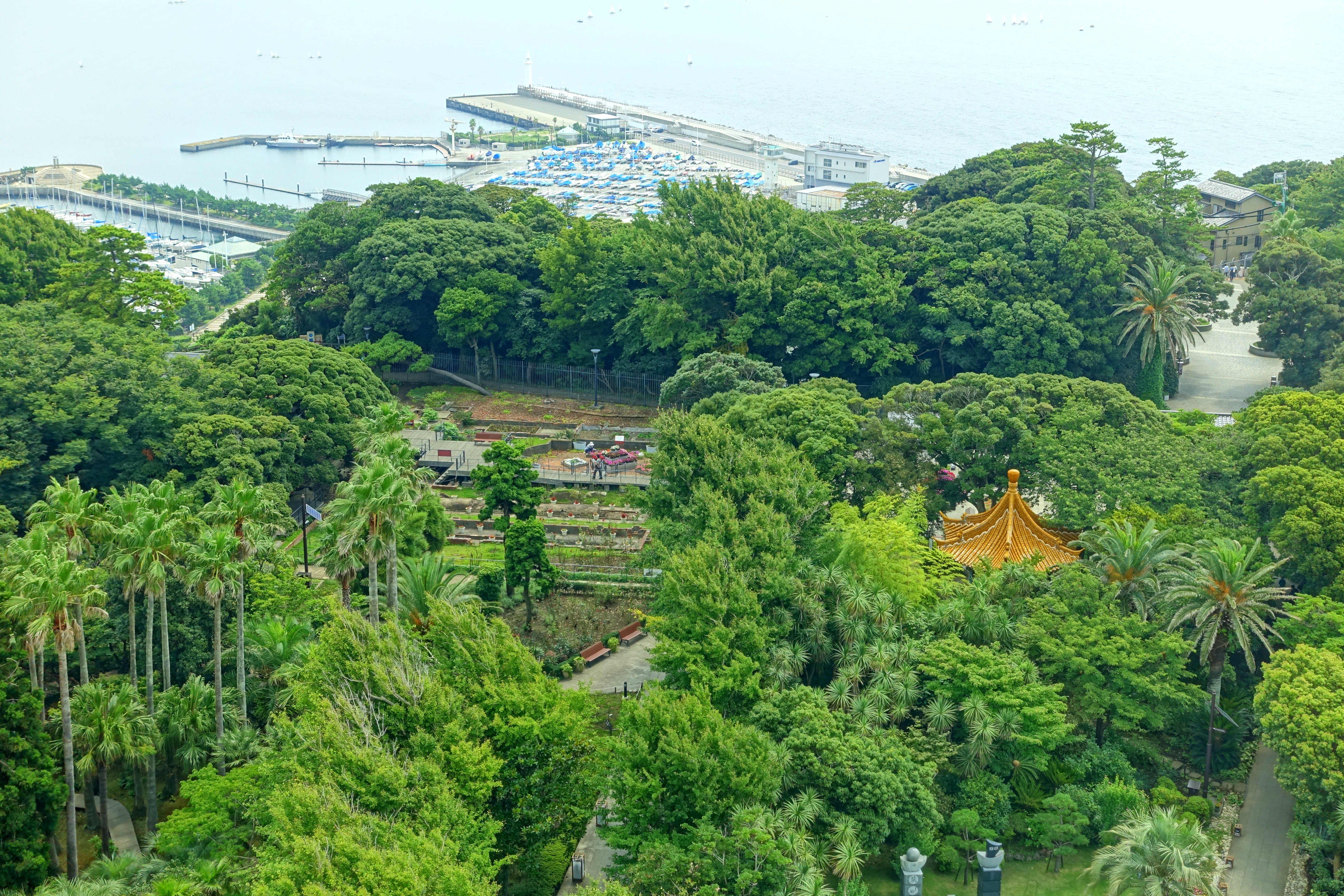 Samuel Cocking Garden - Enoshima, Japan.